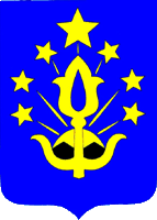 Coat of Arms of Shovgenovsky rayon (Adygeya)